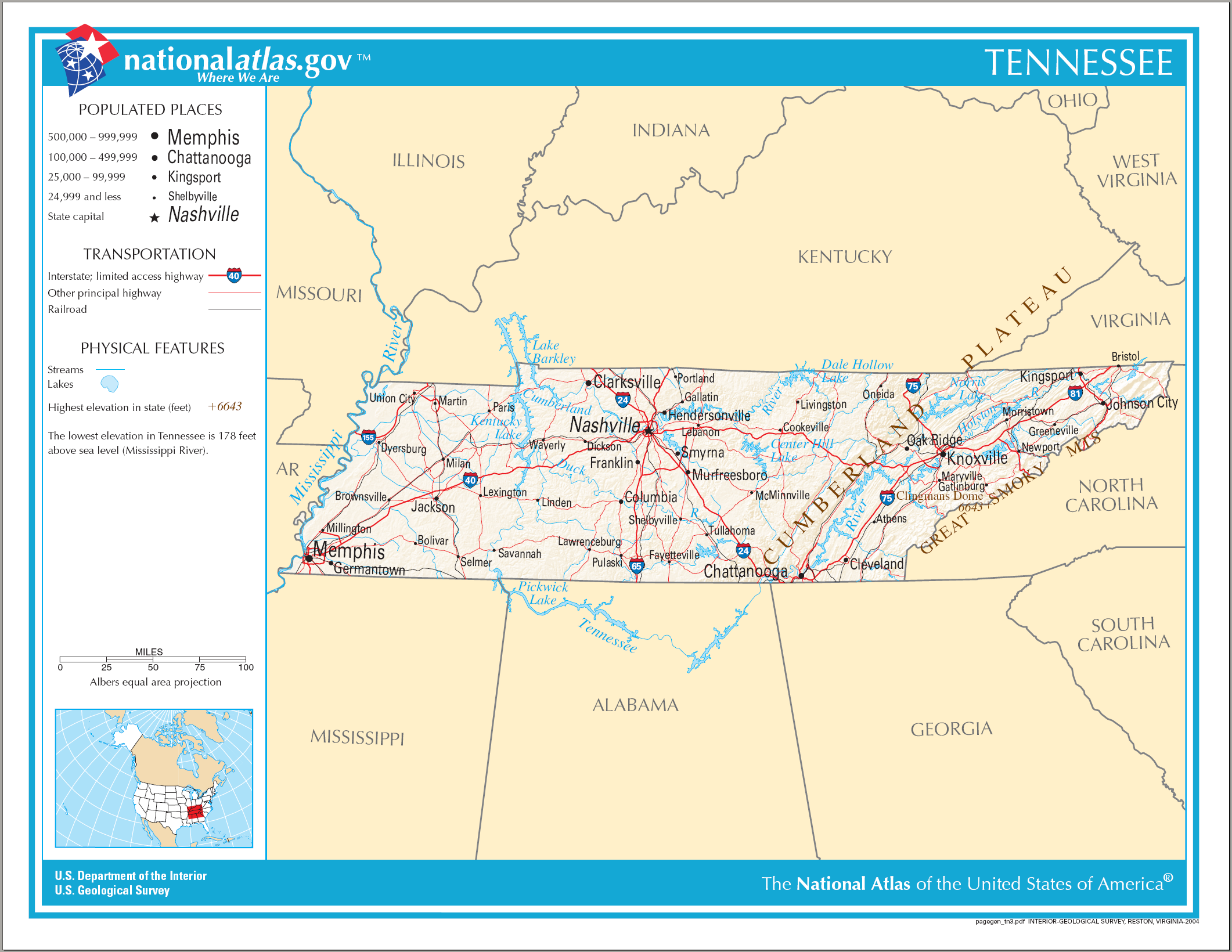 Map of Tennessee.